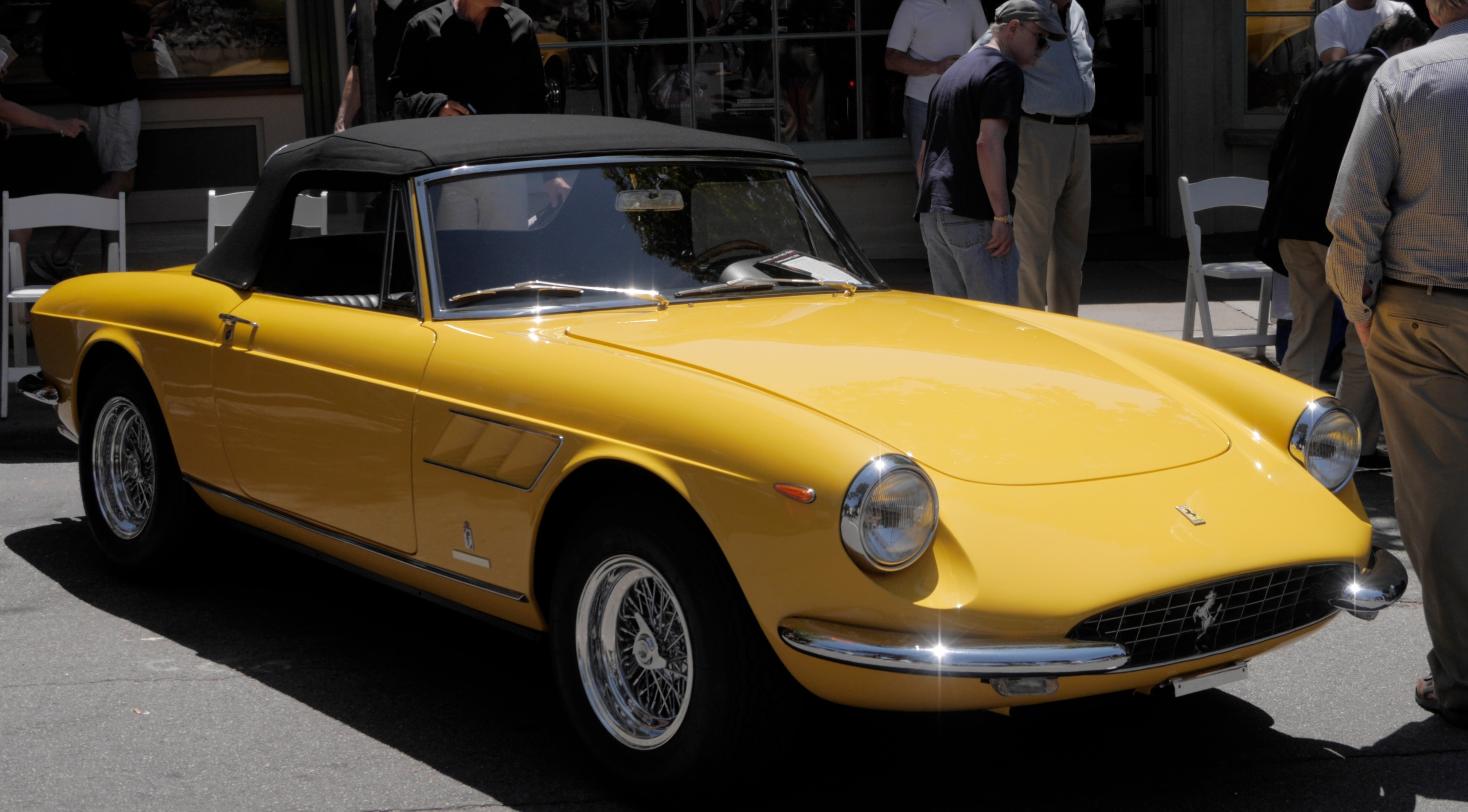 Ferrari 330 GTS. Cropped Version of File:1967 Ferrari 330 GTS (1).jpg